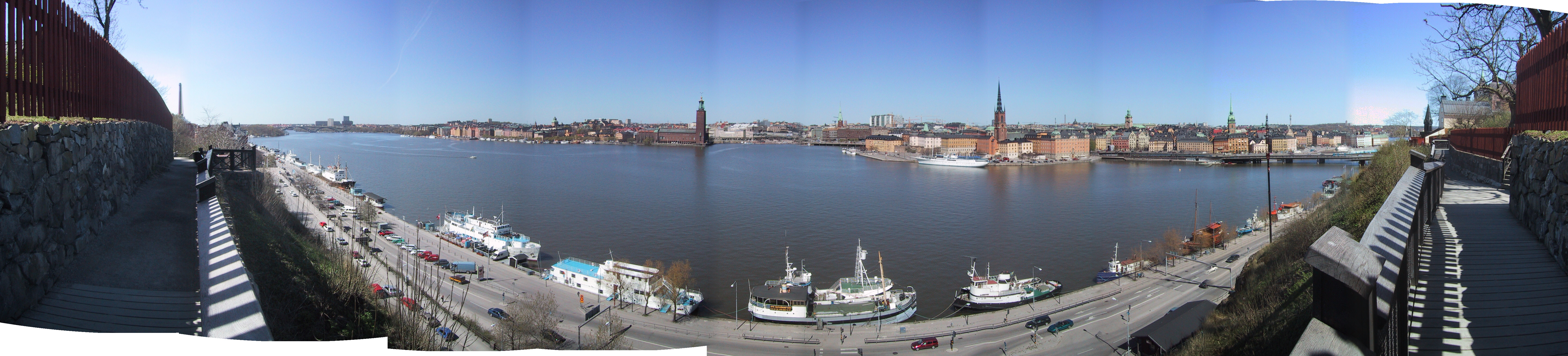 Panorama of Riddarfjärden, the easternmost bay of lake Mälaren in central Stockholm, Sweden, seen from the heights of Södermalm overlooking its quay, the water, and looking north towards the island Kungsholmen and north-east towards the islands Riddarholmen and Stadsholmen (Gamla Stan). The red brick building with the tower is Stockholm City Hall, where the Nobel Prize dinner is served.